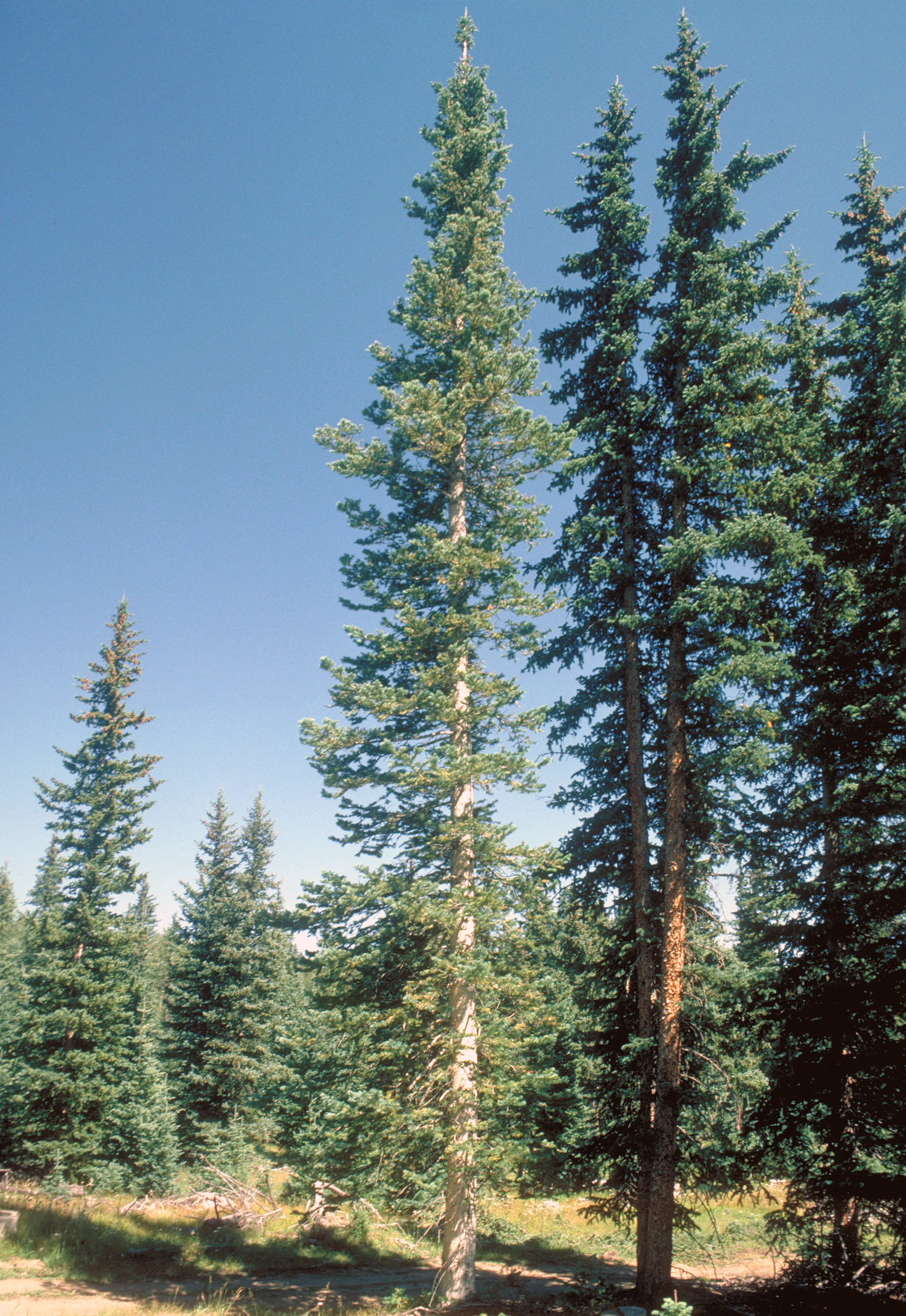 Abies lasiocarpa subsp. arizonica and Picea engelmannii trees